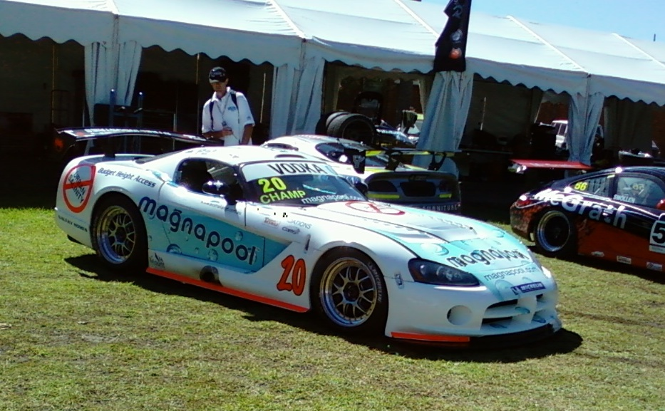 The Dodge Viper GT3 of Ian Palmer at the Adelaide Parklands Circuit for the opening round of the 2010 Australian GT Championship.